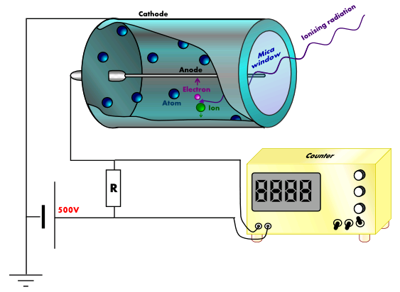 Drawn by User:Theresa knott